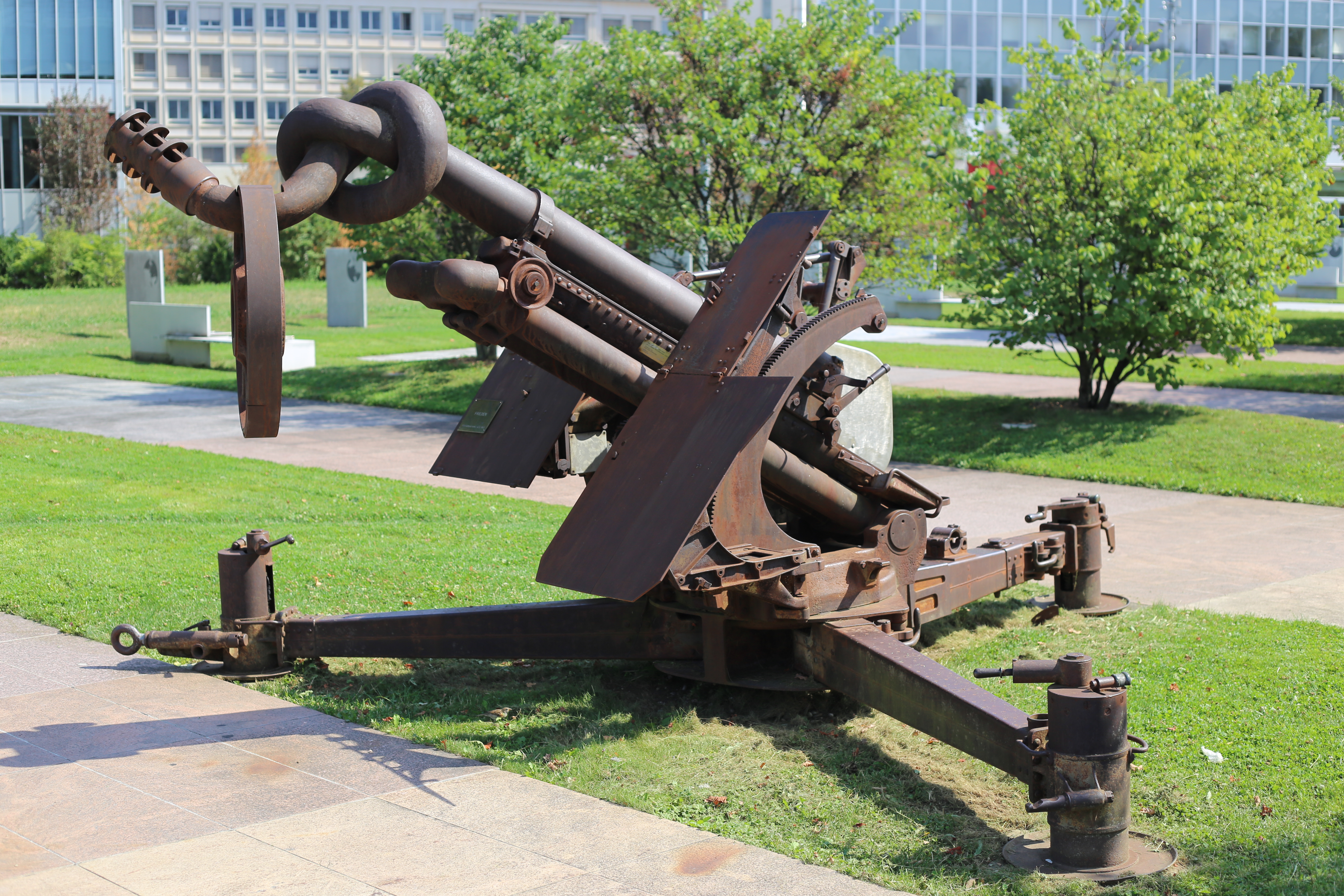 "Frieden", non-violence artwork by R. Brandenberg, Place des Nations, Geneva (Switzerland).